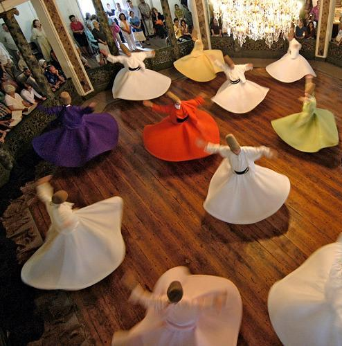 a cropped version of Whirlingdervishes.JPG